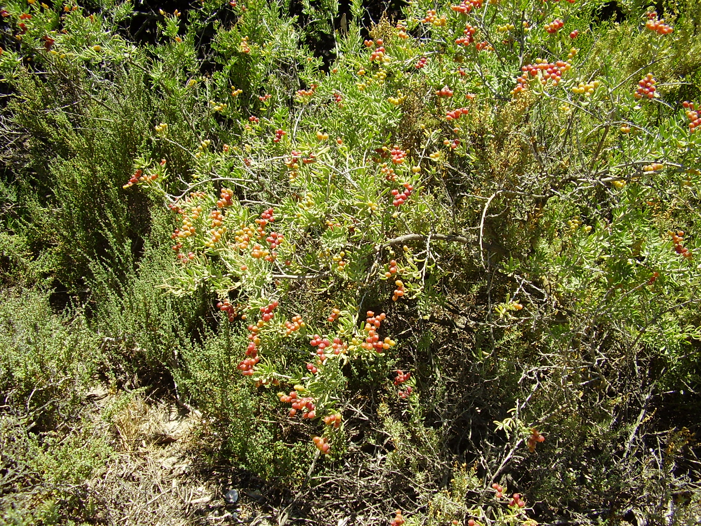 Nitraria billardierei (nitre bush) in fruit. On a causeway, St Kilda, Adelaide, South Australia